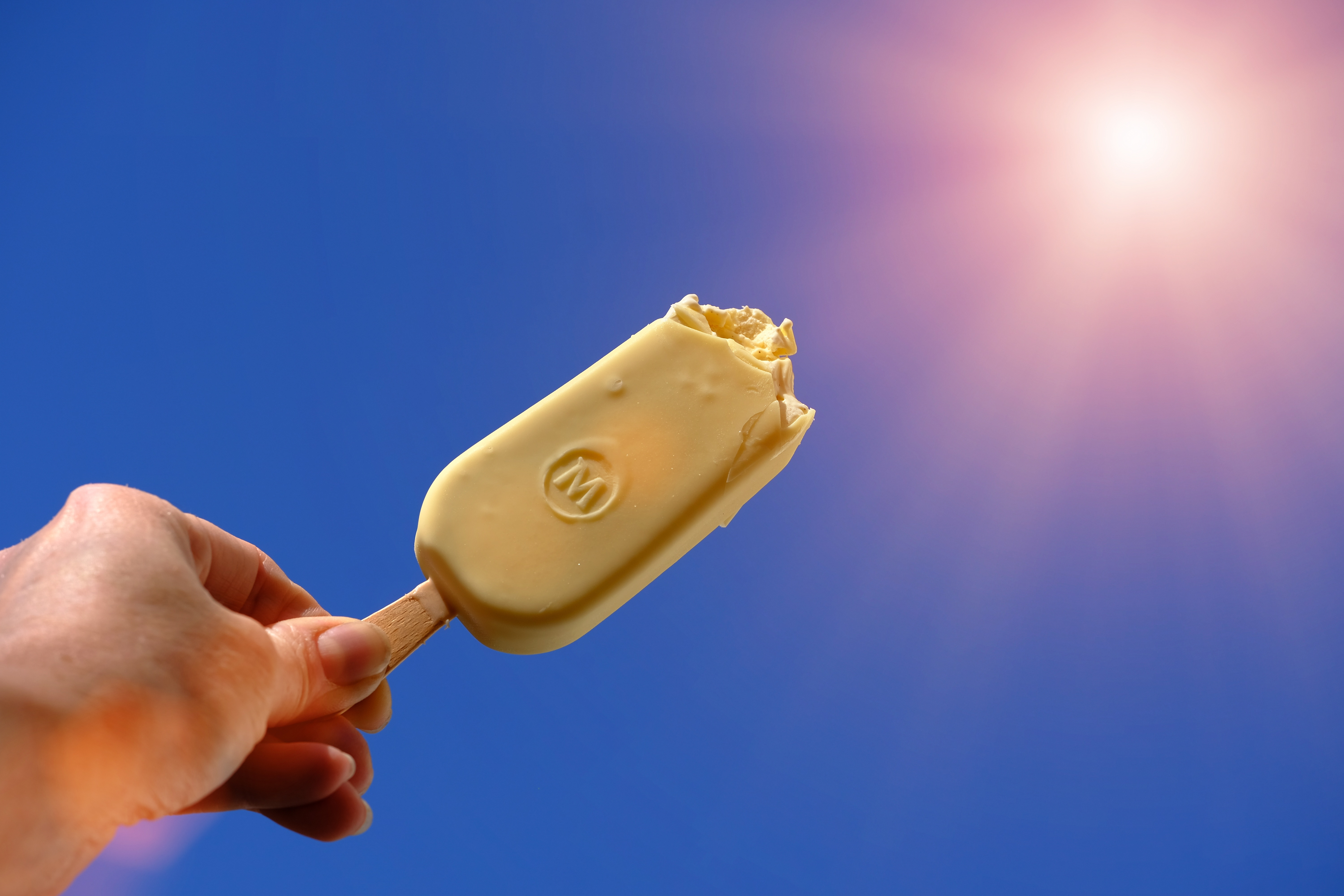 A Magnum ice cream bar, held up to the sky with a bright sun.